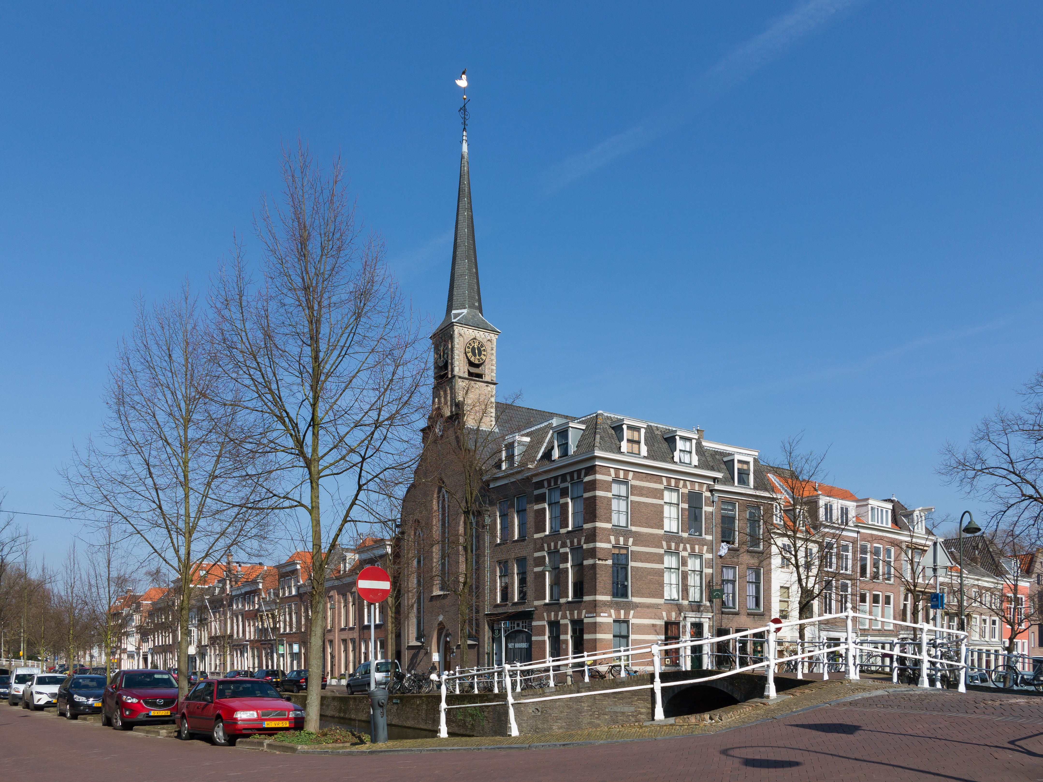 Delft, Lutheran church in the street